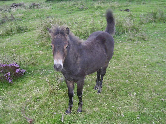 Exmoor pony foal